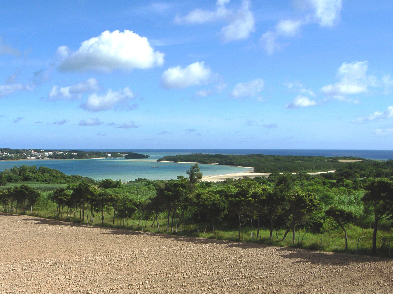 Kabira Gulf, Ishigaki Island, Okinawa Prefecture, Japan